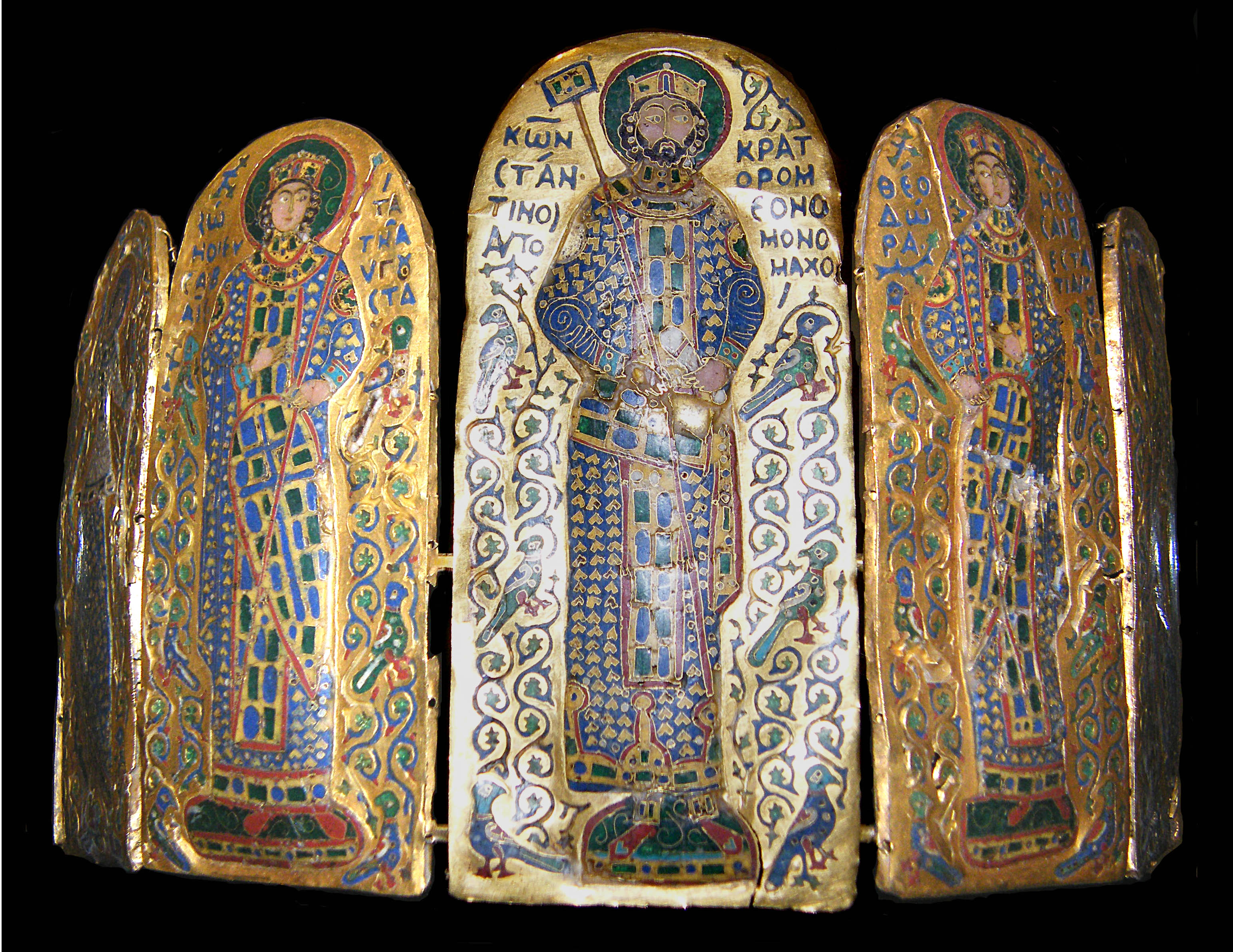 Byzantine enamel plaques probably parts of a crown representing the emperor Constentine IX Monomachos (1042 - 1056), the Empress Zoe and her sister Theodora.